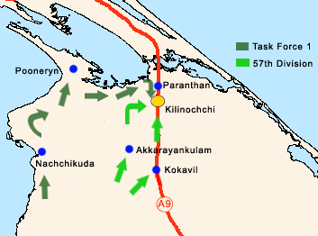 Map showing Sri Lanka Army 57th and 58th Divisions' advance on Kilinochchi.